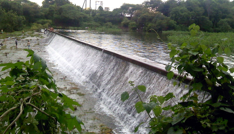 Ambazari Lake at Nagpur overflown.